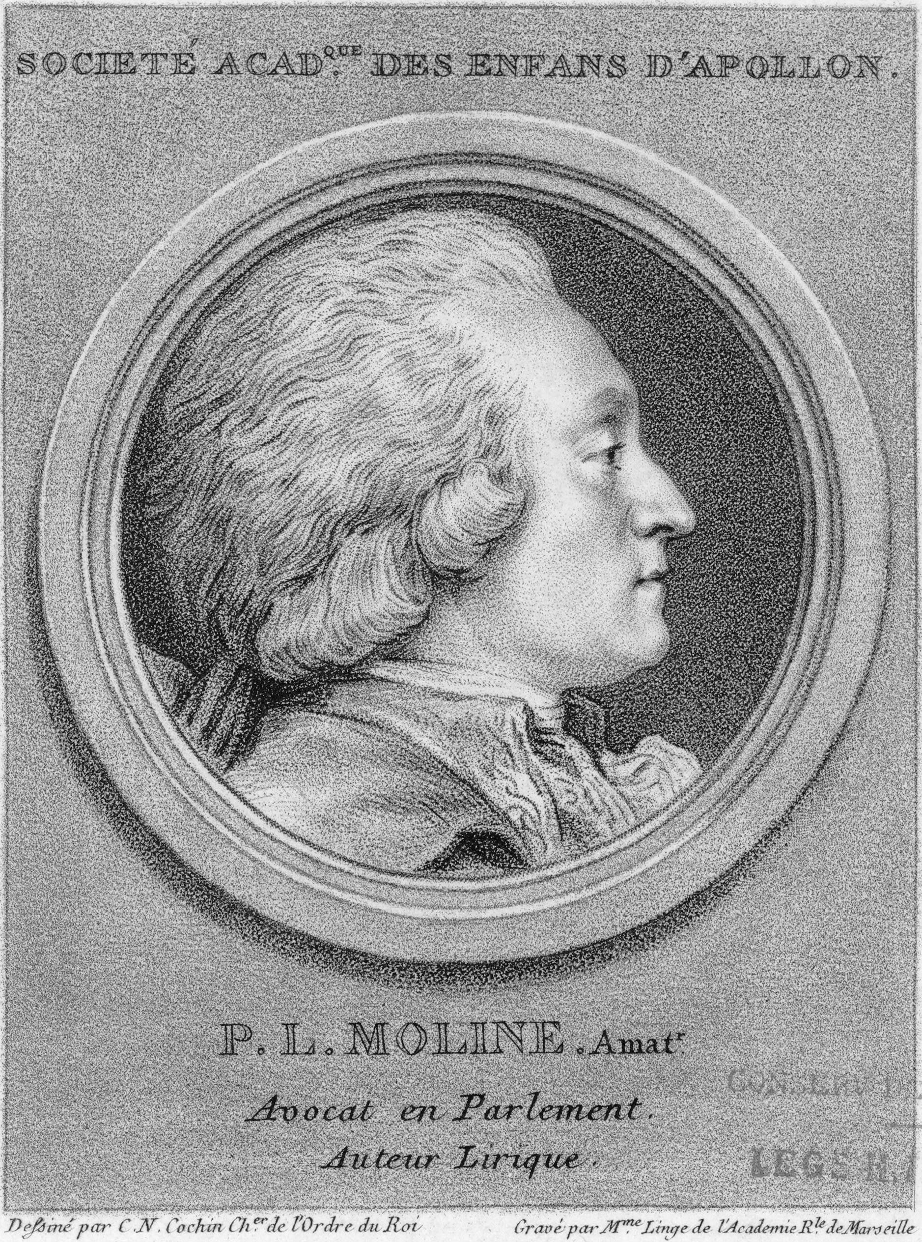 Portrait of the French writer Pierre-Louis Moline